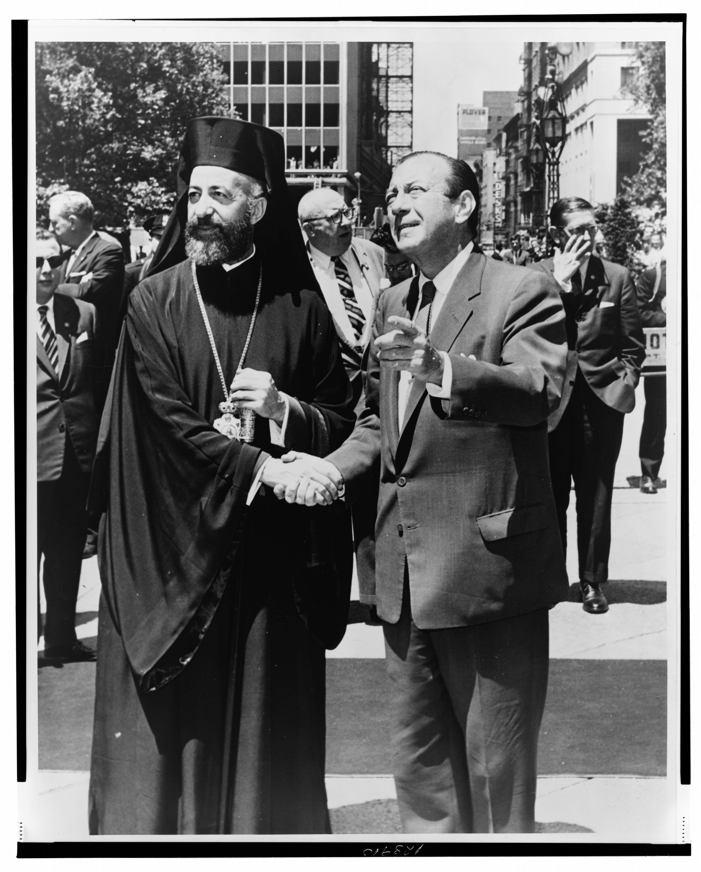 Mayor Wagner greets Archbishop Makarios at City Hall / World Telegram & Sun photo by O. Fernandez.